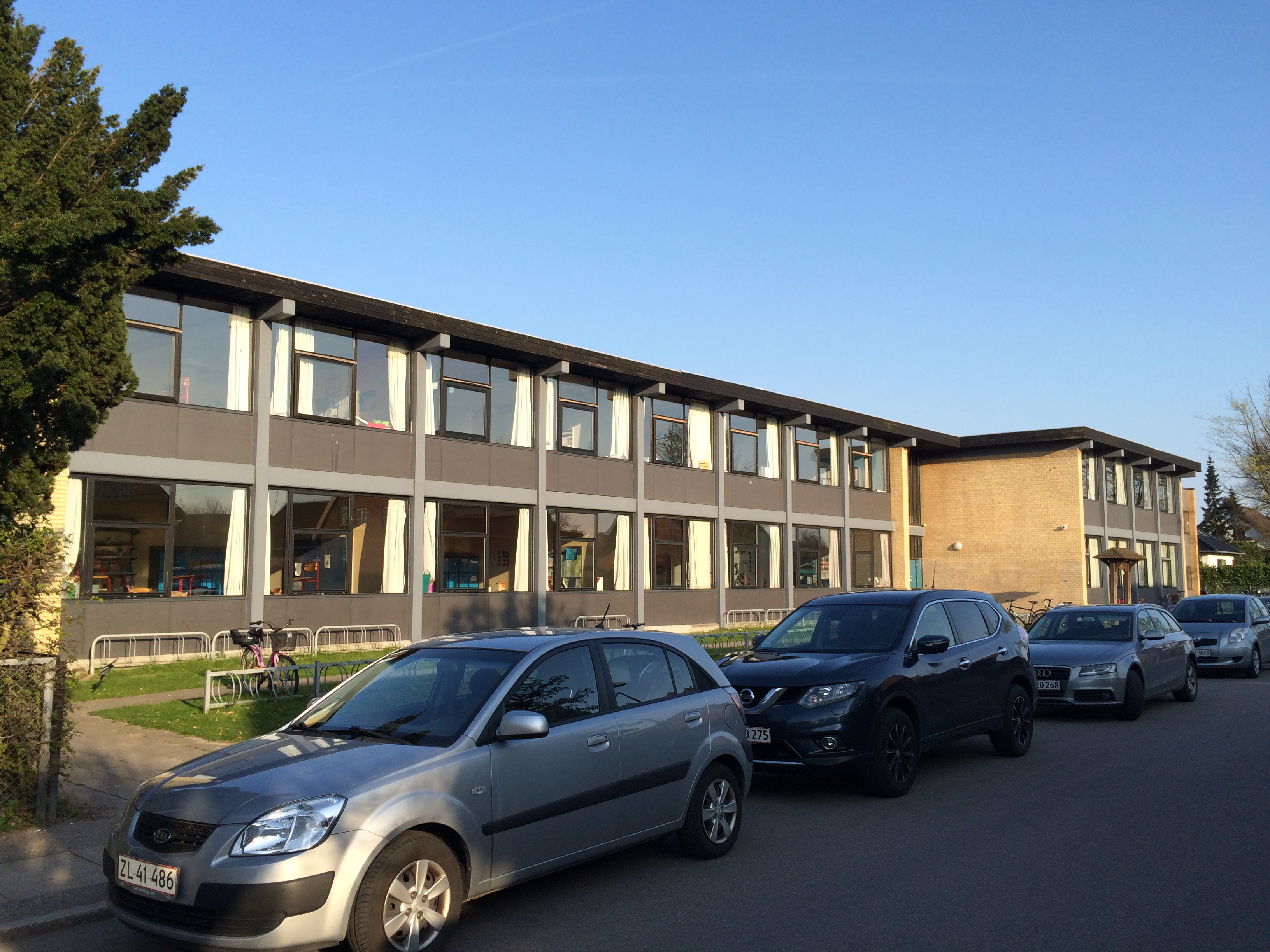 Taastrup Realskole